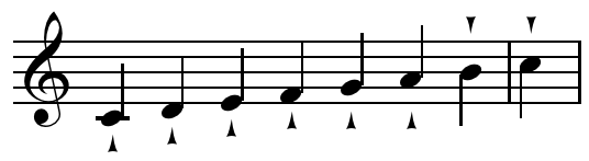 Diatonic scale on C, staccatissimo articulation.